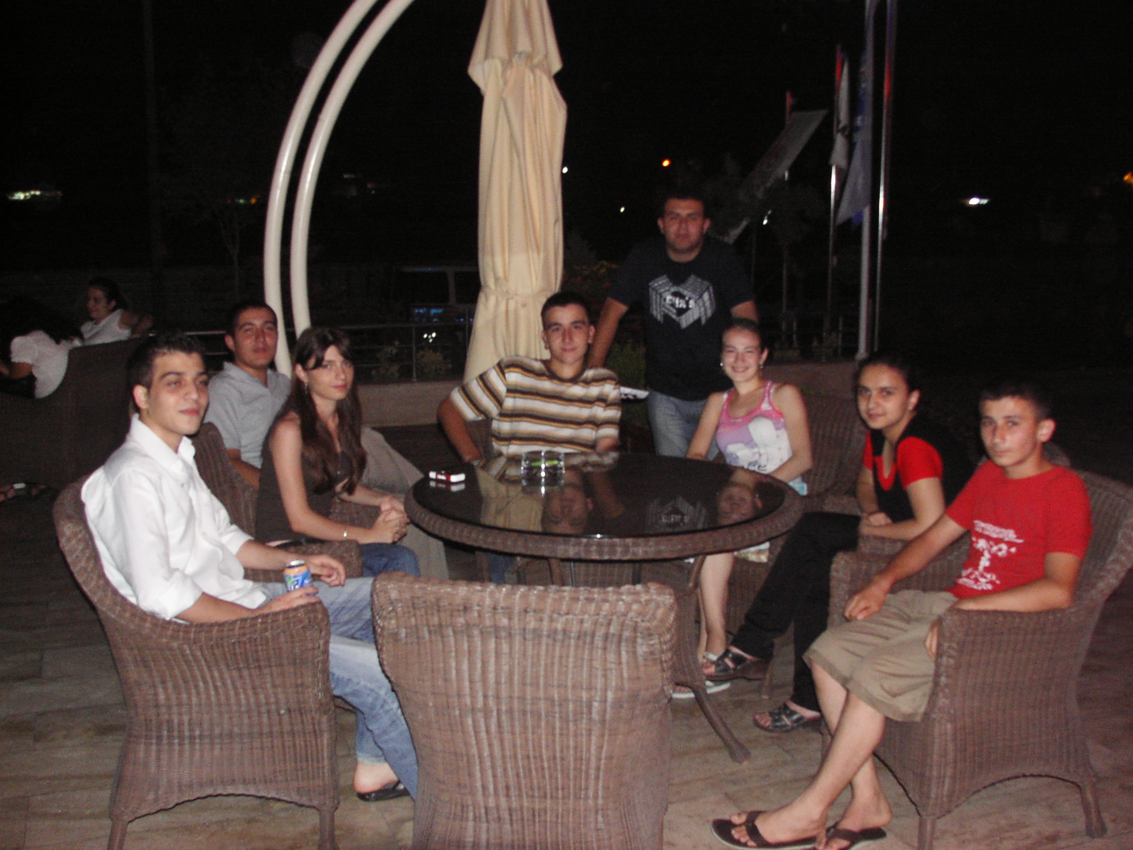 Chess team of Azerbaijan celebrating the birthday of Turkan Mamedyarova, at the 2008 World Junior Chess Championship in Gaziantep, Turkey.